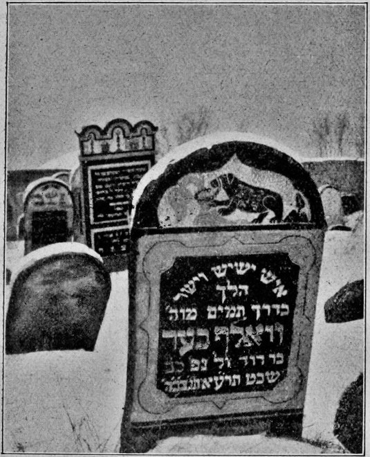 Jewish cemetery in Brest - Symbols on Jewish gravestones : bear (people whose name is Dov and Ber, here "Wolf Ber").